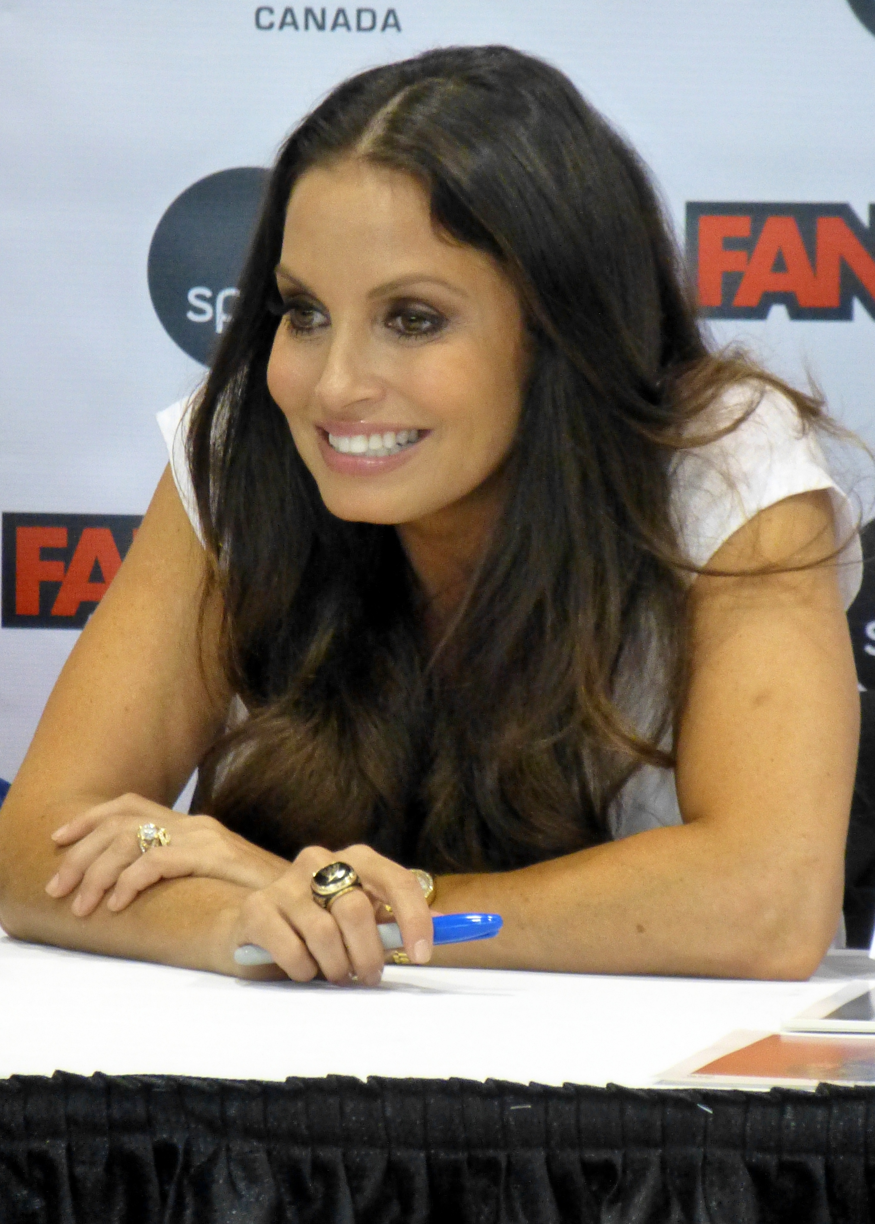 Trish Stratus 07 2014 Fan Expo Canada